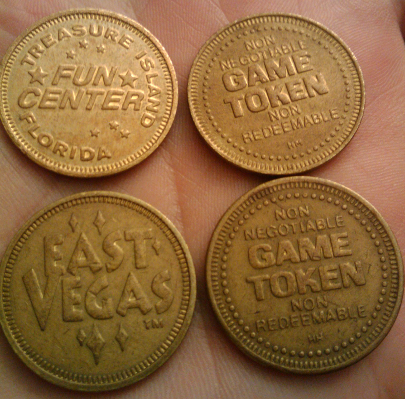 Treasure Island Fun Center Here are 2 types of tokens from the Treasure Island Fun Center in St. Pete Florida. One has the name of the place and the other says 'East Vegas'. This arcade/family center was a great find by Kevin Paget. It's a large place with a lot of arcade games and ticket games. The thing that caught our eye was in the back of the center. The pinball machines. This place has Fun House, Elvira, Attack From Mars, Adam's Family, and Twilight Zone. We had a great time playing those games. This center also had a great selection of video games to play. I highly recommend find this place and spending time and money here. Treasure Island Fun Center 7770 Seminole Blvd Seminole, FL 33772 727-391-9105